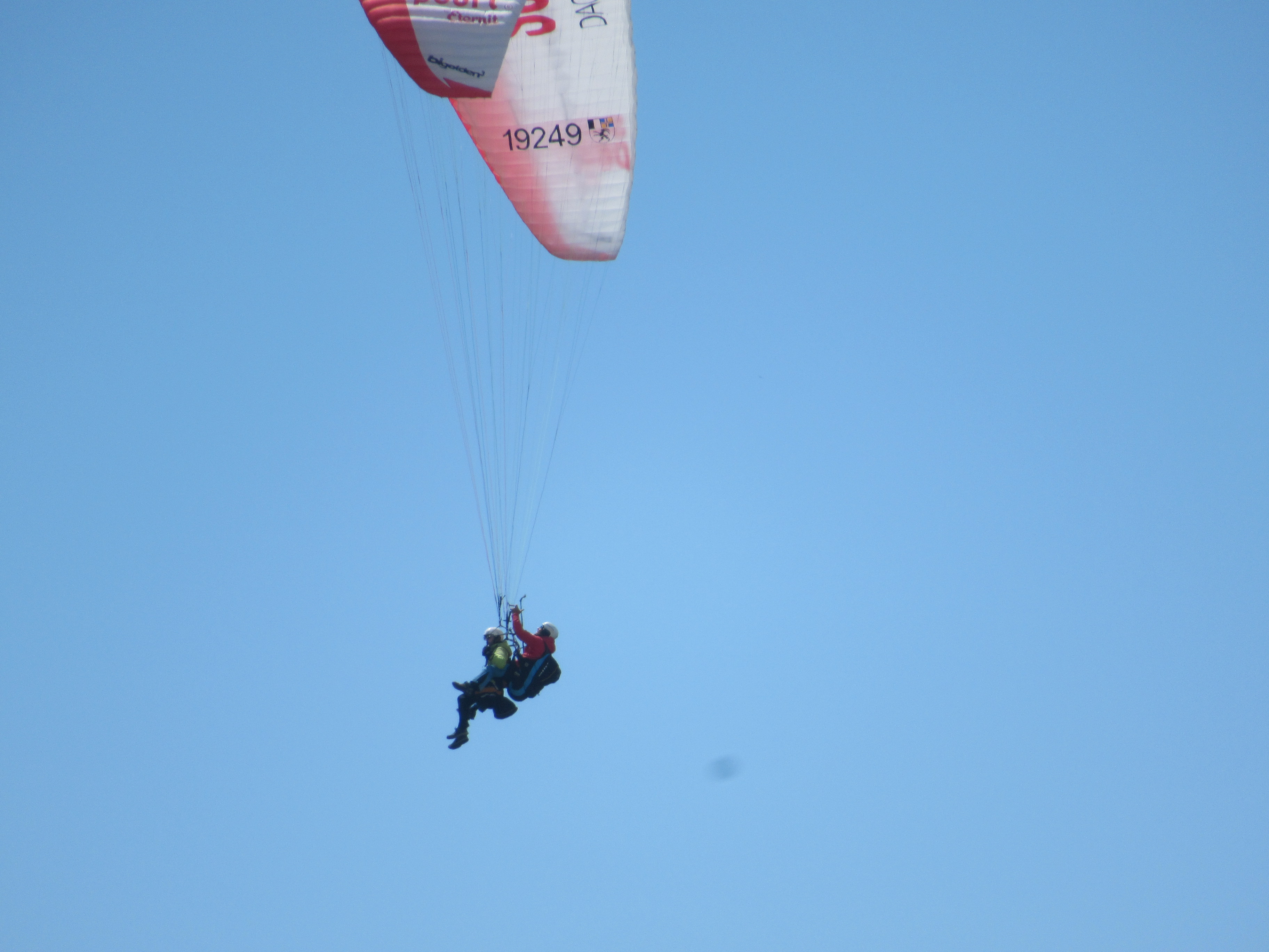 Paragliding with instructor over Lake Sils St Moritz (approx 3000 meters) July 2018